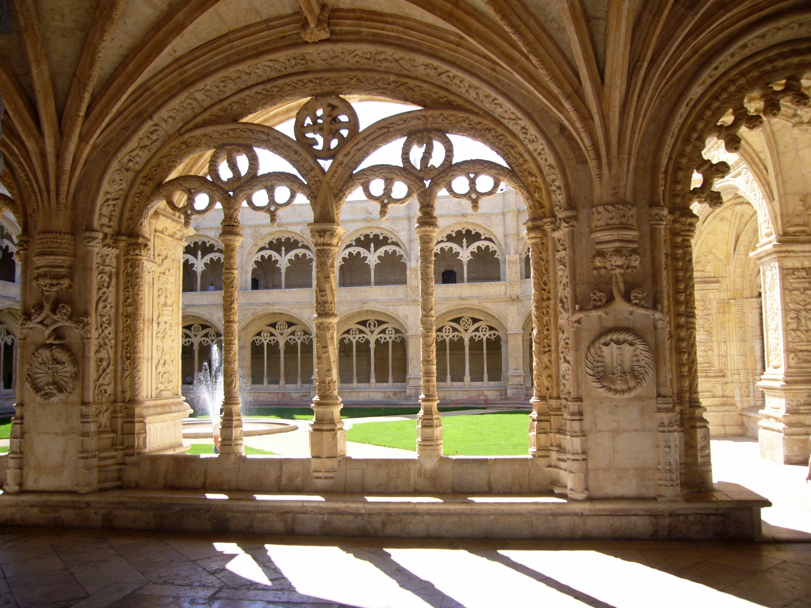 Manueline cloisters of the Jerónimos Monastery, Lisbon